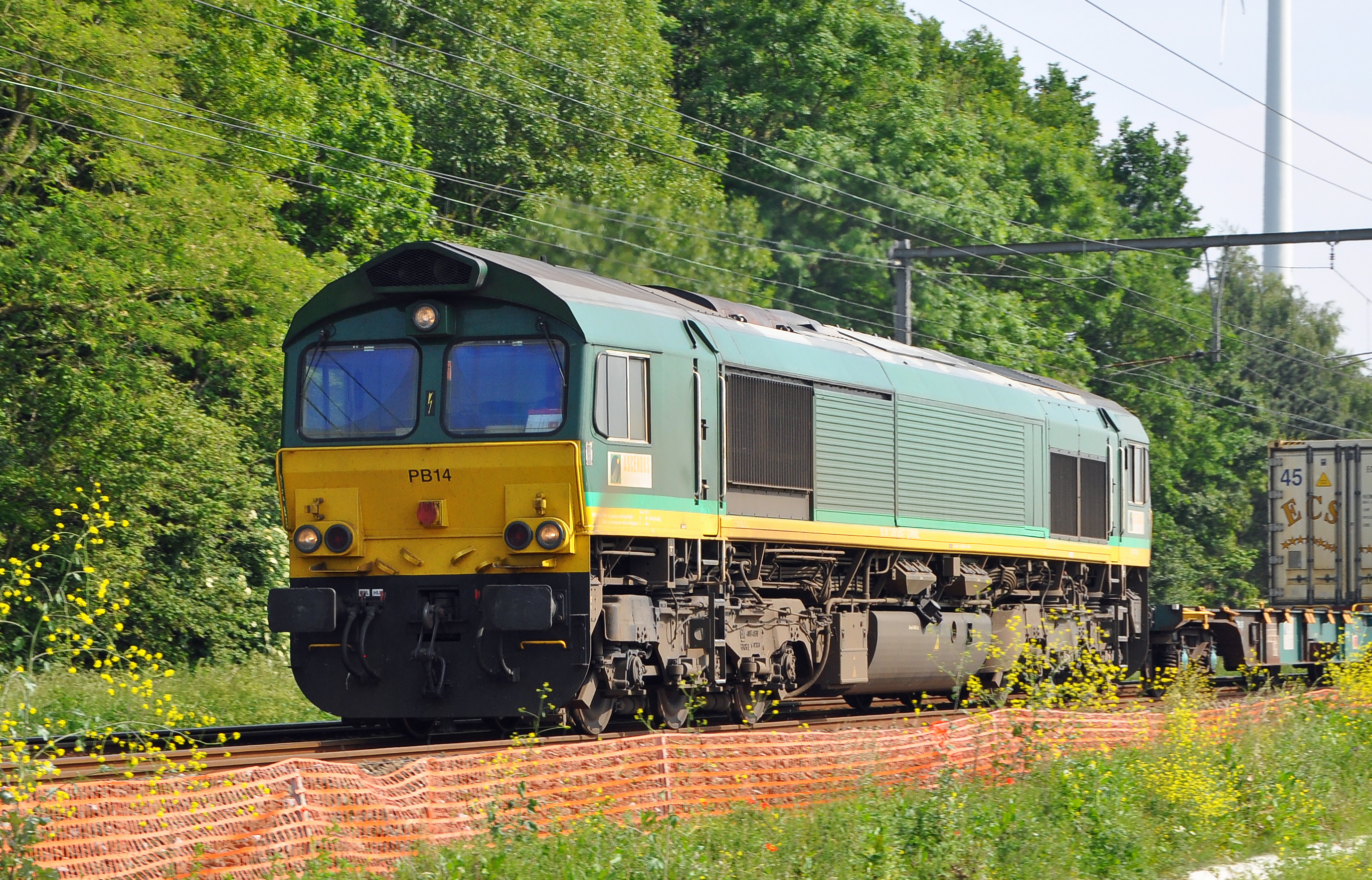 Class 66 locomotive PB14 of Belgian rail transport company Crossrail Benelux